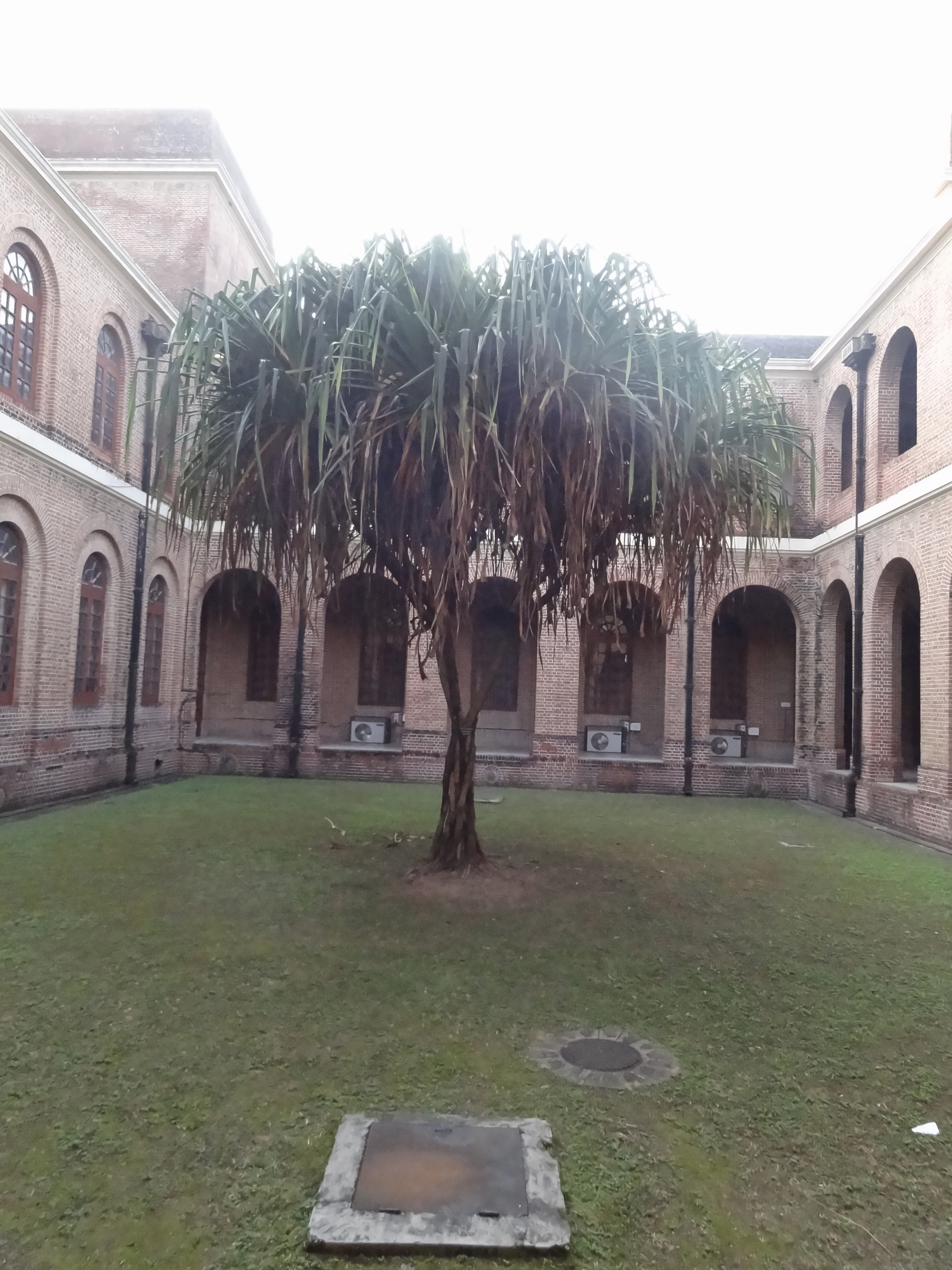 Pandanus Furcatus at FRI Dehradun